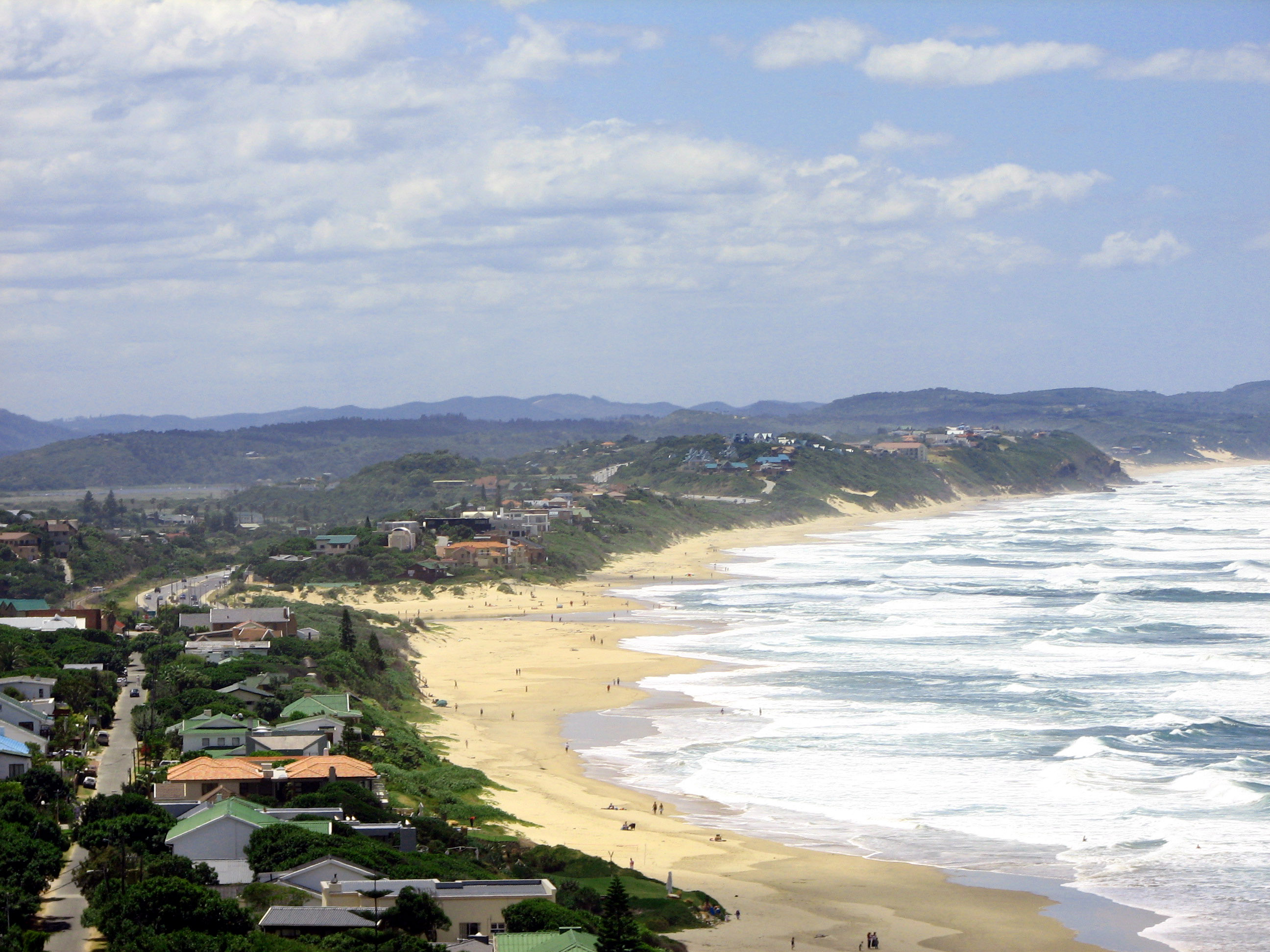 A view of the town of Wilderness in the Western Cape of South Africa. Taken by myself, Andres de Wet, 30 December 2006